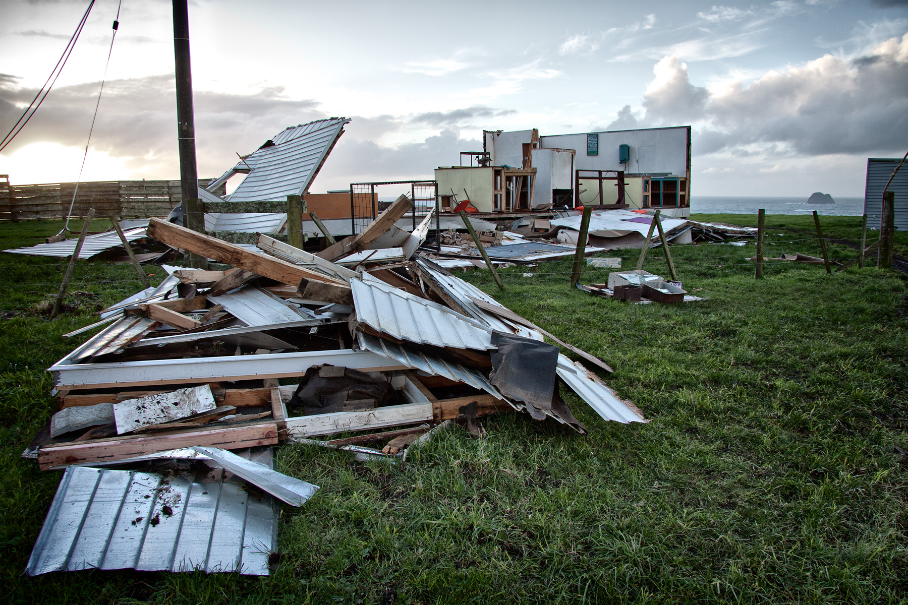 Tornadoes found their way through Omata, New Plymouth, and Bell Block today destroying buildings and shredding anything in their path. This was the clubrooms of the New Plymouth Clay Target Club near Omata. Wikipedia definition of a Mesocyclone.